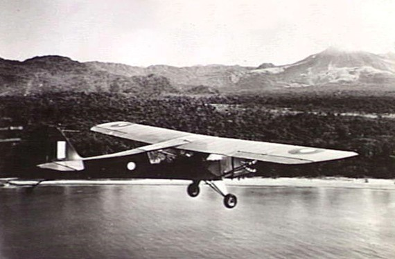 An Auster of No. 17 Air Observation Post Flight RAAF preparing to spot for the artillery over Bougainville.